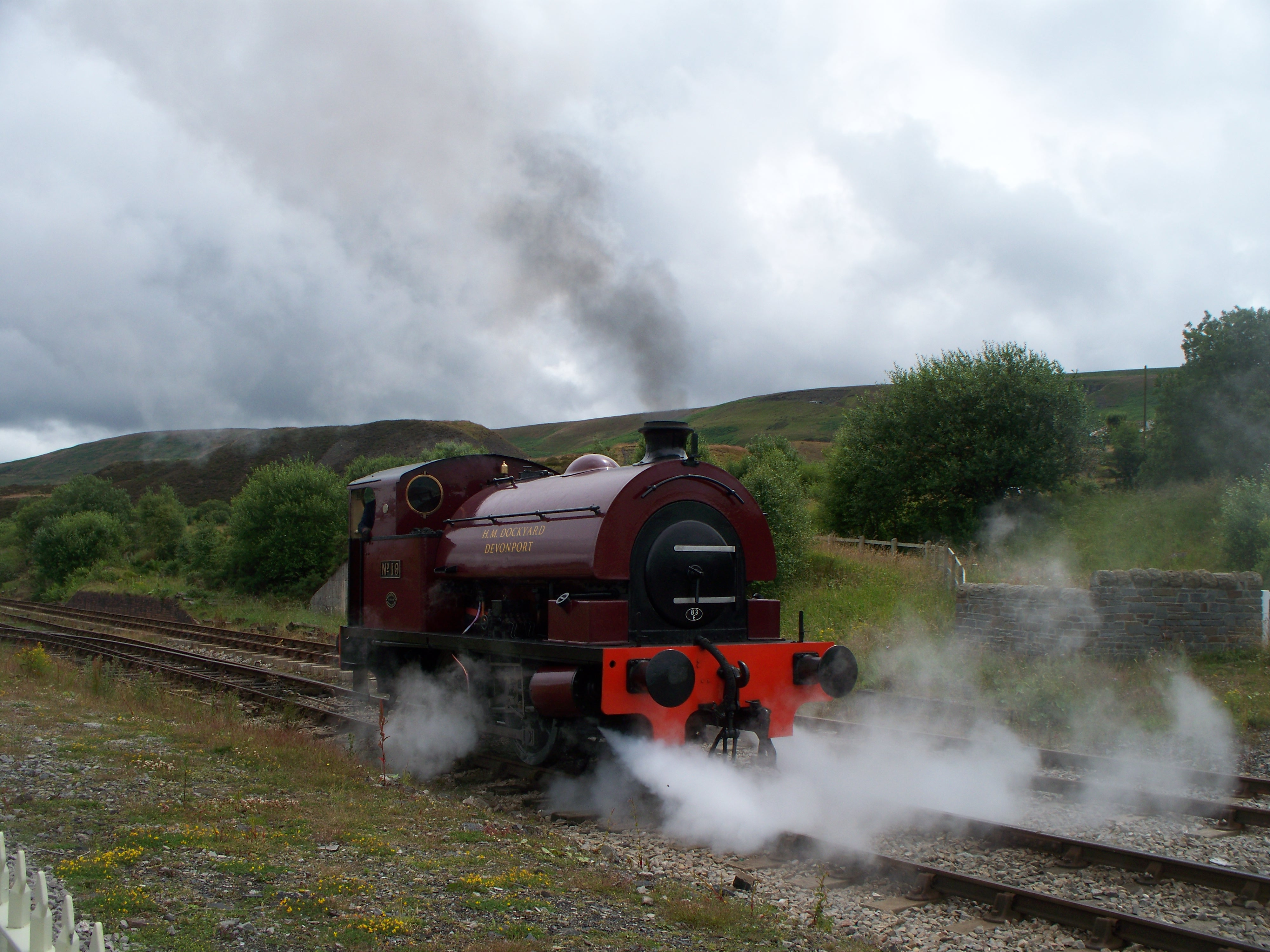 Bagnall 19 On The Pontypool And Blaenavon Railway